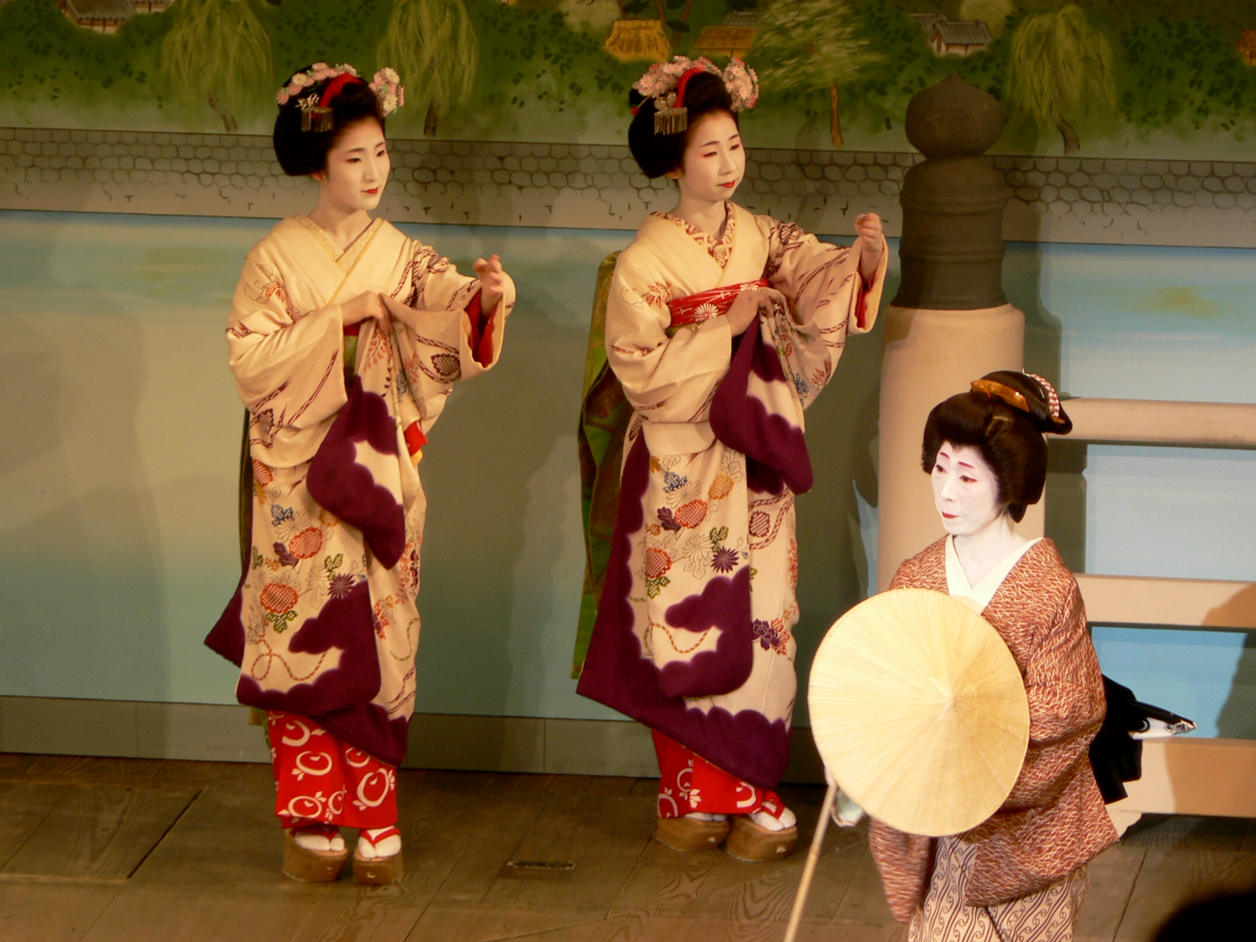 Dancing maikos Hisano and Ichiemi and a geisha (changed picture format from JPEG to PNG)